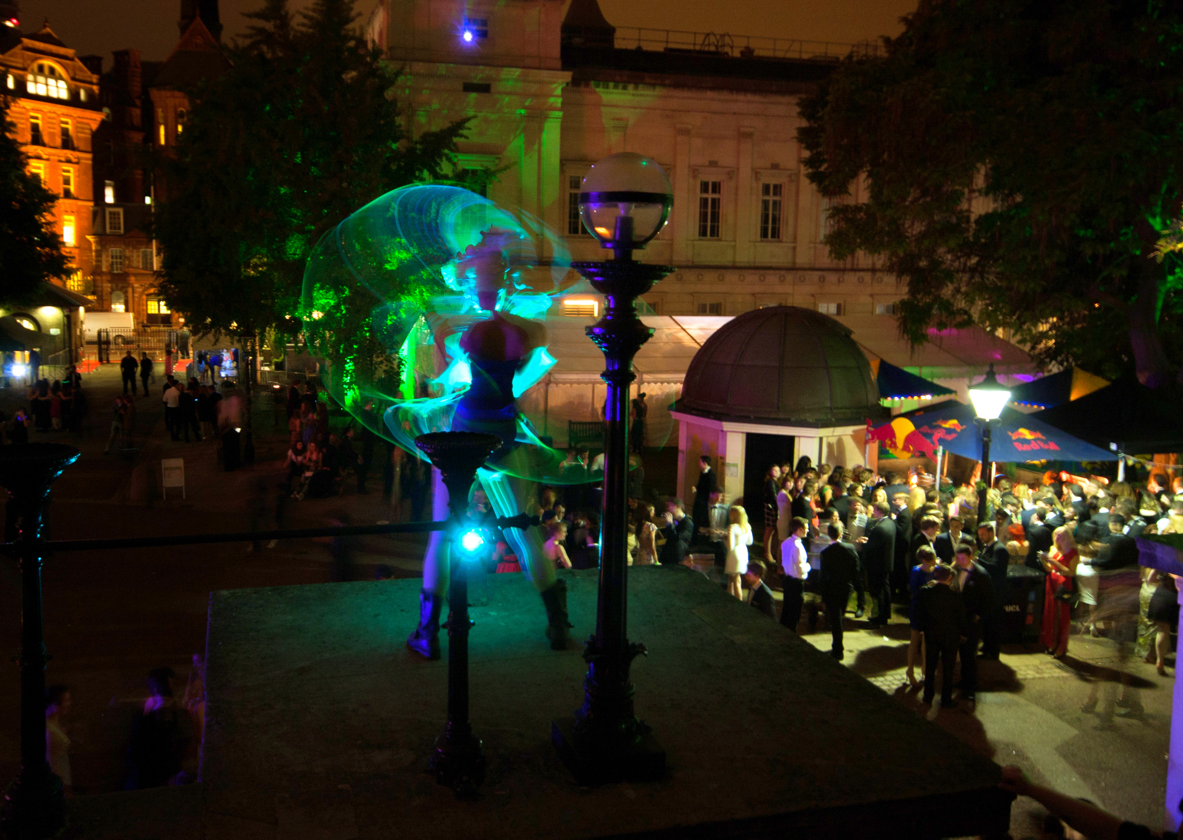 The 2014 summer ball at University College London